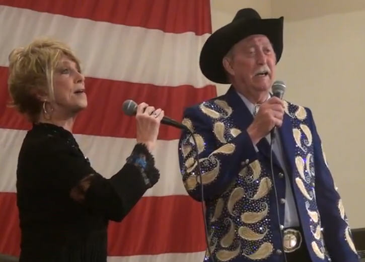 Jack Greene and Jeannie Seely performing at a R.O.P.E. event, early 2010s.